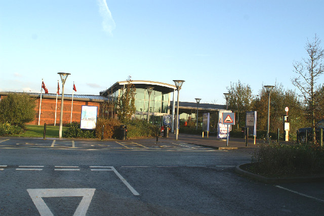 M6 Stafford Services (South-bound)